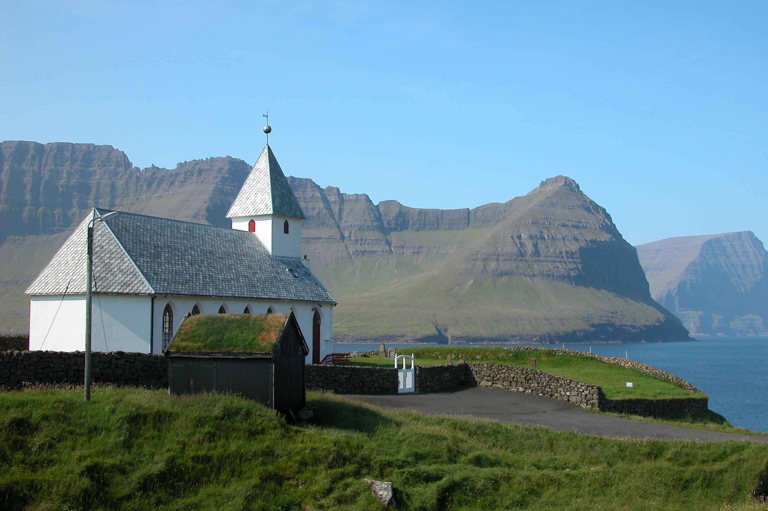 Church of Viðareiði on Viðoy, Faroe Islands. View westwards on Svínoy. The cliffs in the background belong to the highest ones of the world.